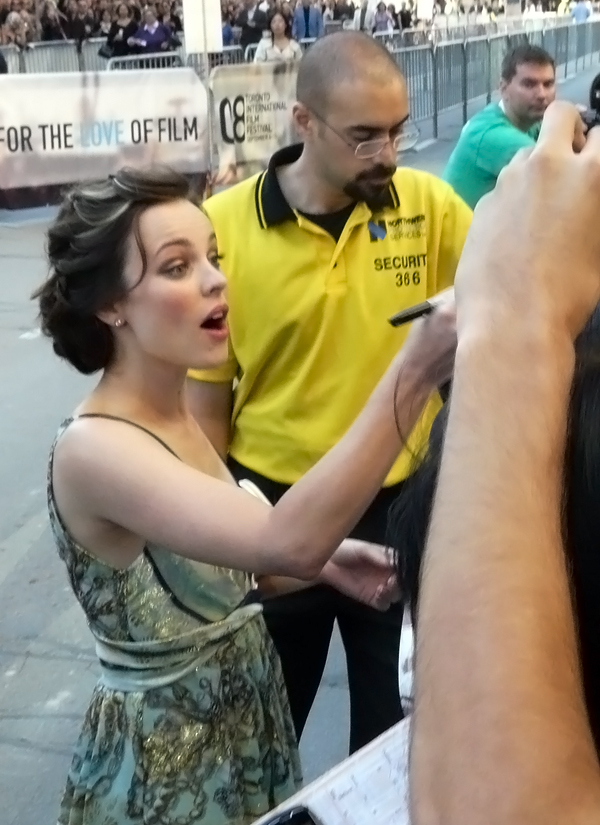 Actress Rachel McAdams arrives at "The Lucky Ones" premiere during the 2008 Toronto International Film Festival held at the Roy Thomson Hall on September 10, 2008 in Toronto, Canada Check out More great pics and Video at